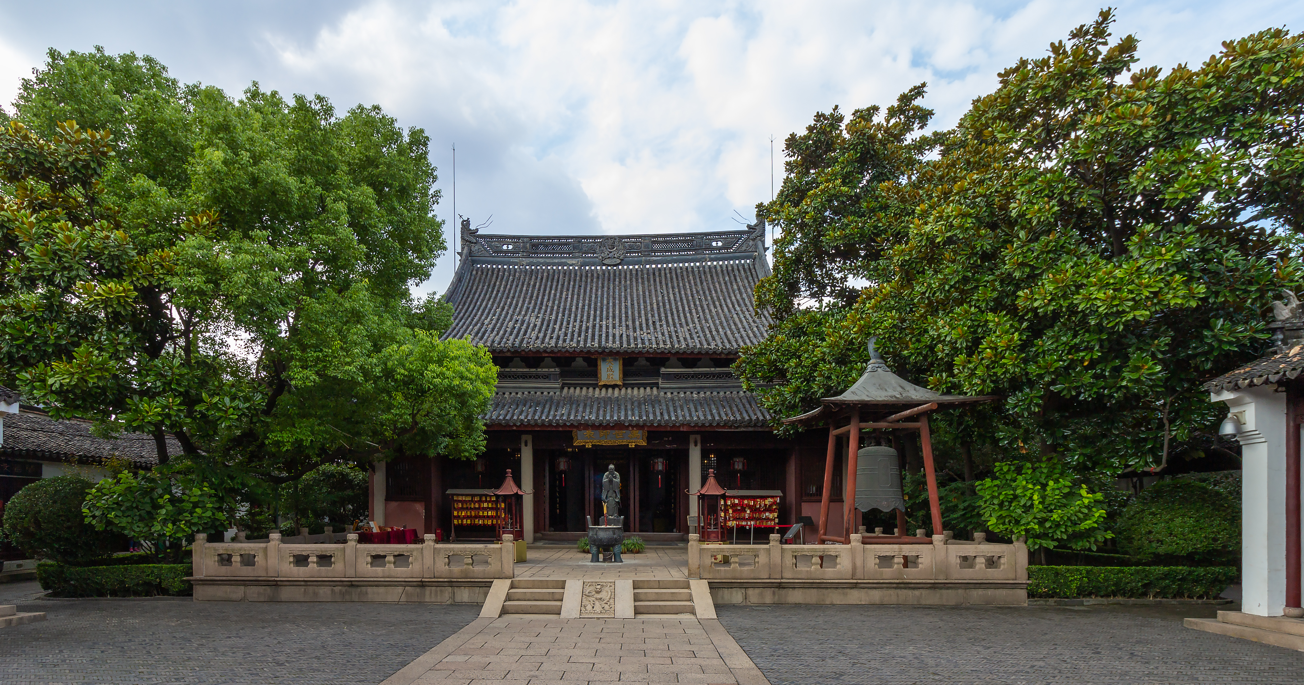 Confucian Temple, Shanghai, China